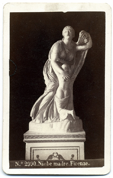 Giorgio Sommer (1834-1914), Niobe, the mother. Florence. Catalogue # 2990. Picture of a hellenistic sculpture, at the Galleria degli Uffizi in Florence. I niobidi agli Uffizi (serie incompleta)